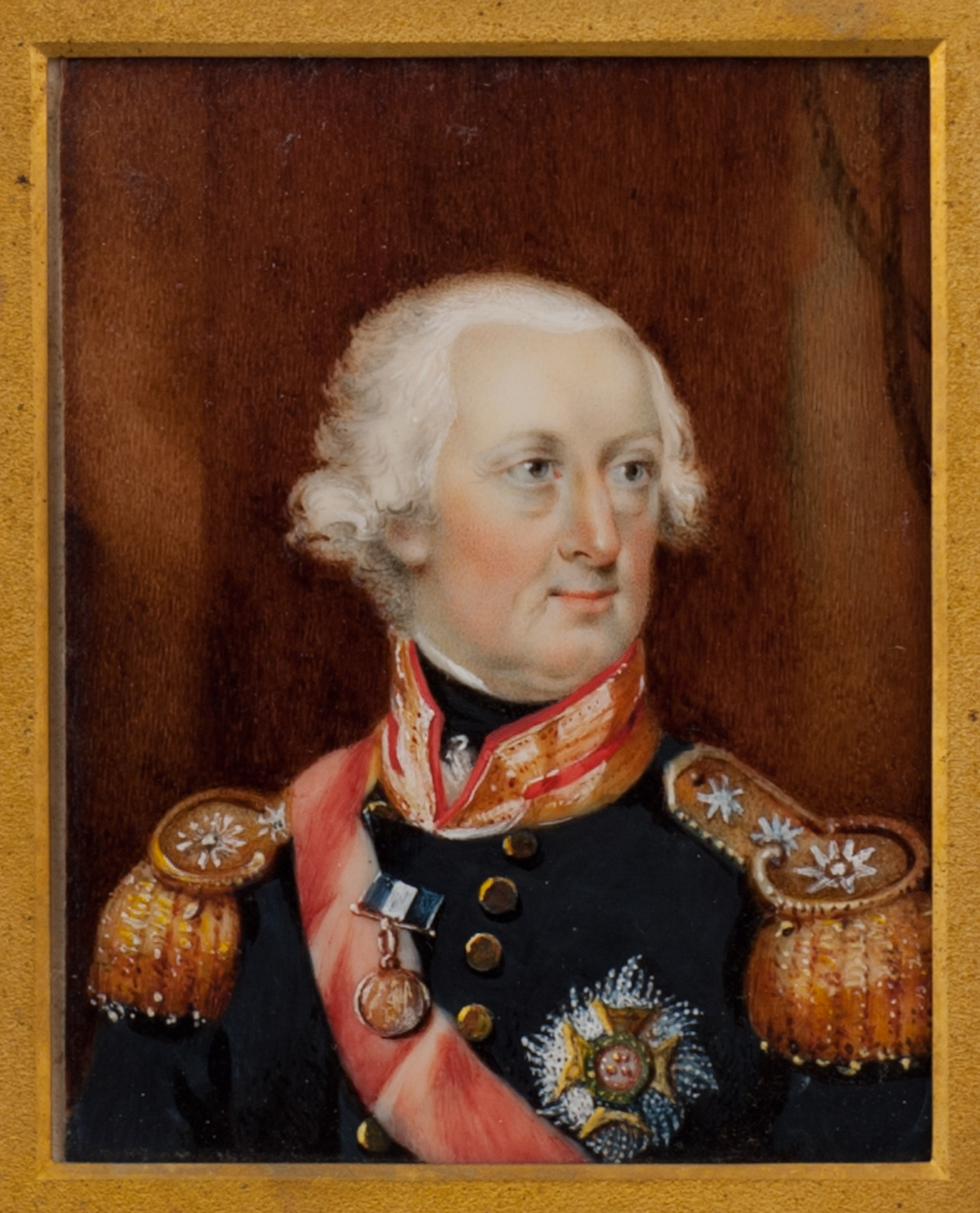 Ad Sir Charles Henry Knowles Bt GCB